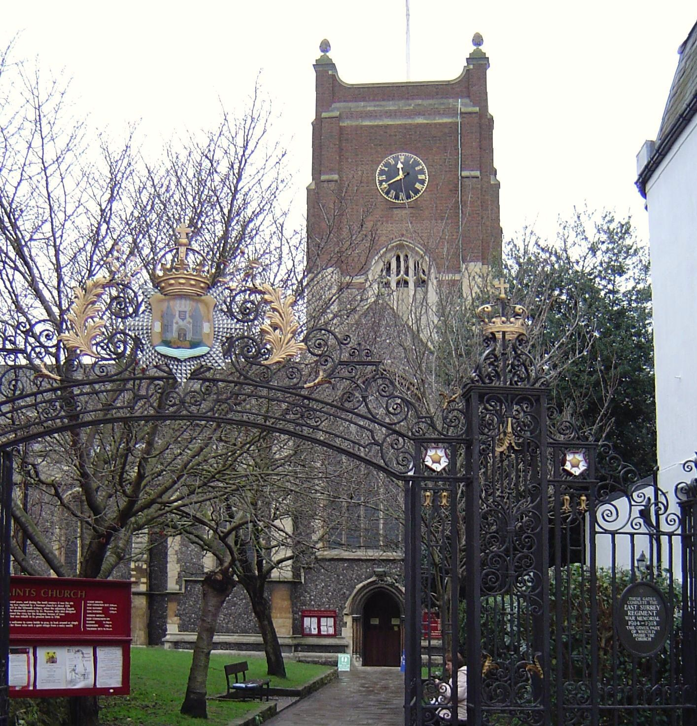 All Saints Church, Kingston upon Thames. The coat of arms over the gate is that of the former East Surrey Regiment, whose memorial chapel is in the church.